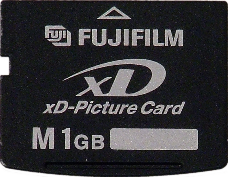 xD flash memory card, type M, 1G.